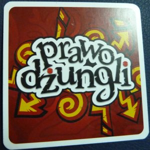 I discovered this game when I was in Zaporozhye. I took this picture so that I could find the game later. I have leaned that it is called Jungle Speed here in the US.